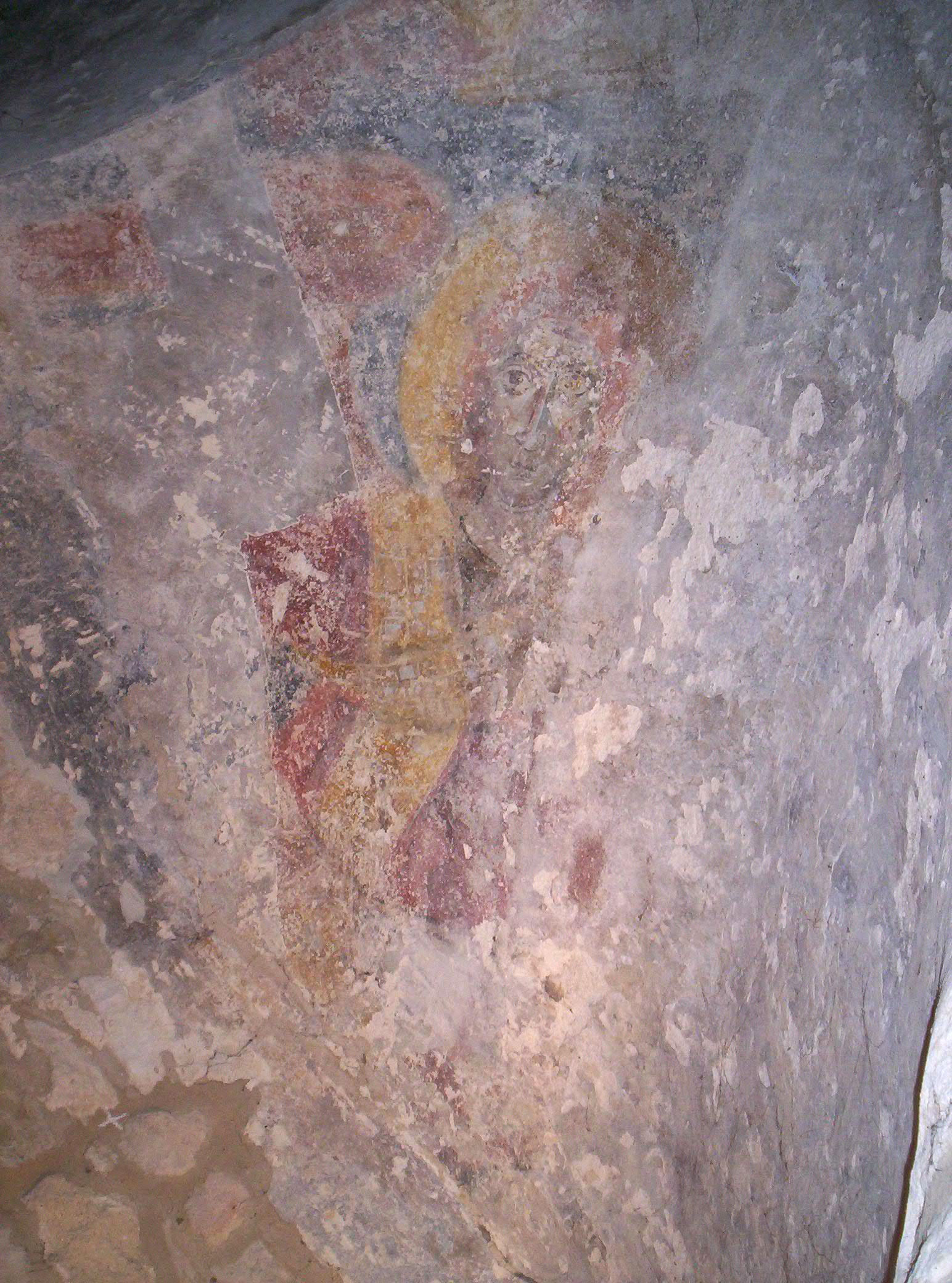 Freskó a pécsváradi bencés apátság altemplomában (alapítás éve: 1015) – – photo taken by uploader User:Csanády in 2006. Fresco in the crypt of the Benedictine monastery of Pécsvárad (founded in 1015).